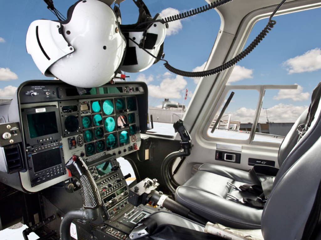 Bell 407 Interior